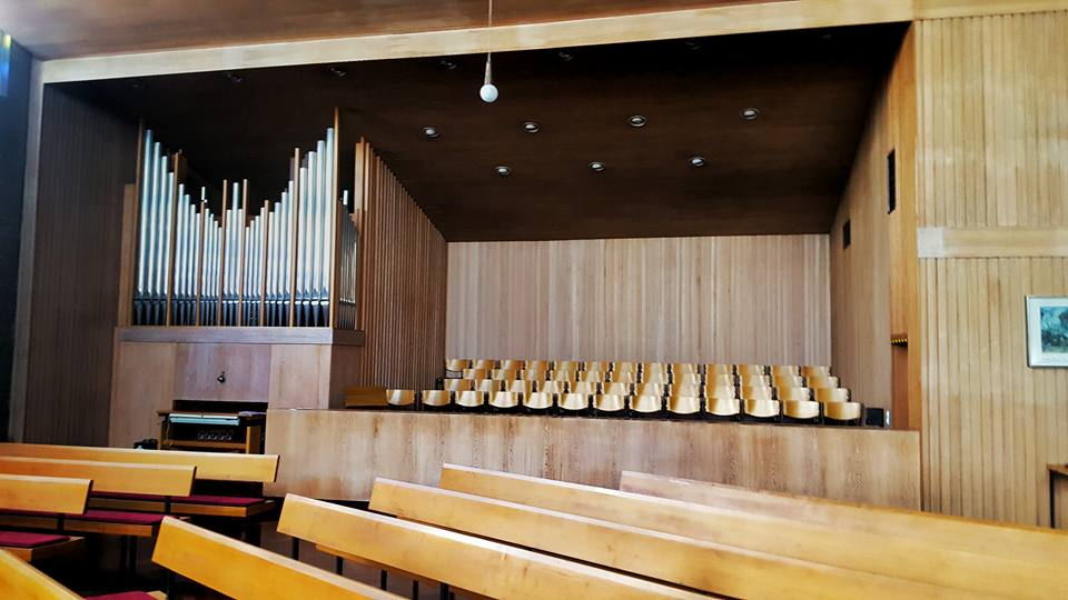 view to the organ of the Kreuzkirche in Heilbronn